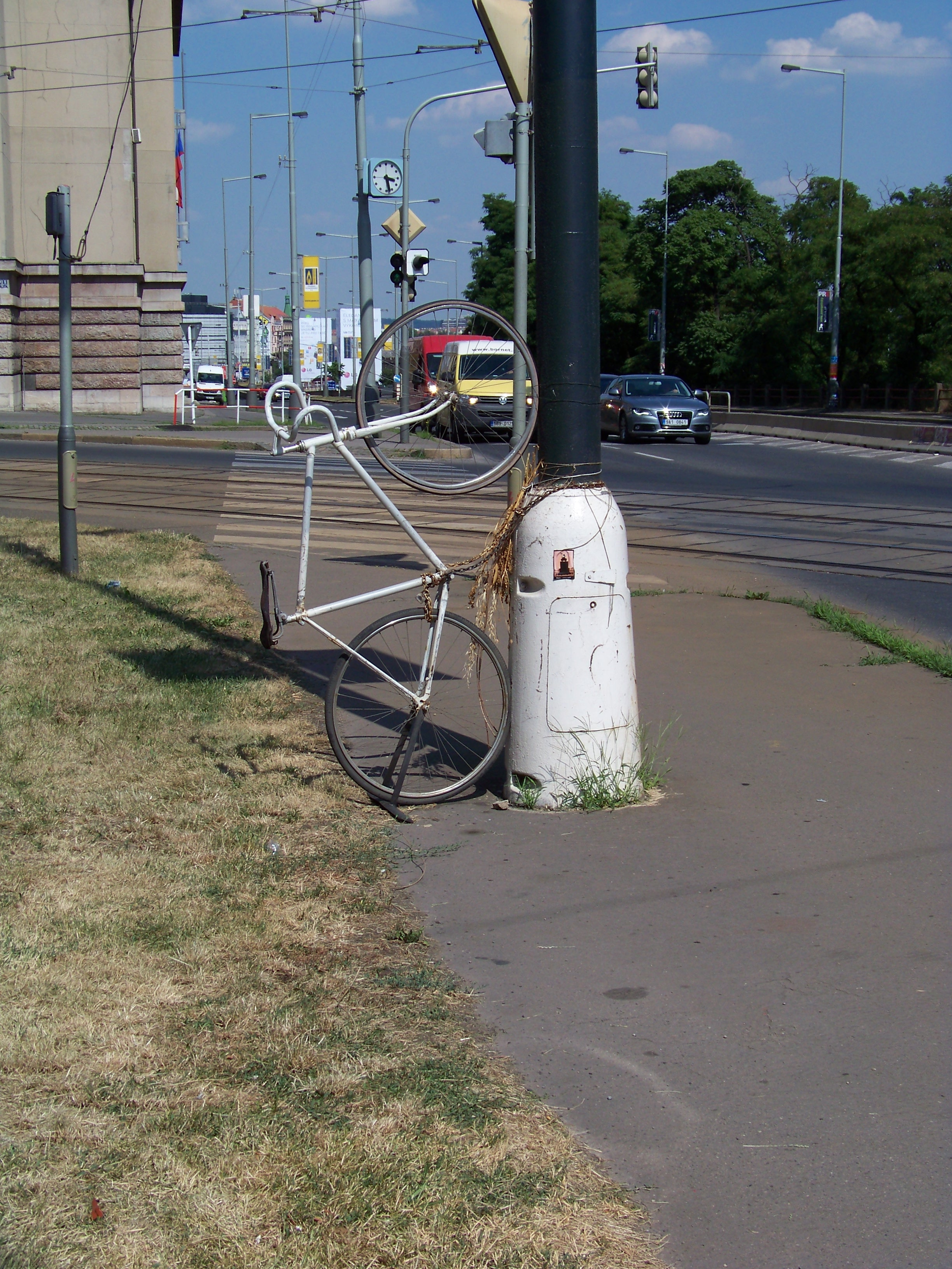 Holešovice, Prague, the Czech Republic. Kapitána Jaroše Embankment, a memorial of the activist Jan Bouchal.